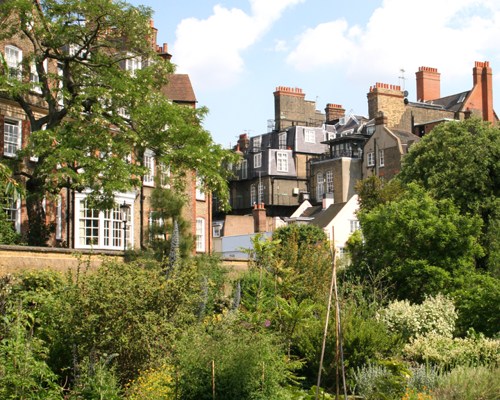 Colour photograph showing the Chelsea Physic garden, with the house in the background.